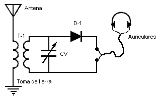 Inductively coupled crystal radio receiver circuit, a very simple radio that runs on the power it receives from the antenna. This type uses a resonant transformer, T-1, consisting of two magnetically coupled coils of wire, to select the station to be received. Each coil acts as a tuned circuit; the lefthand (primary) coil resonating with the antenna capacitance, the righthand (secondary) coil resonating with the tuning capacitor, CV which is variable and used to tune in different stations. Such a resonant transformer has a much sharper, narrower bandwidth than the single coil used in many circuits.